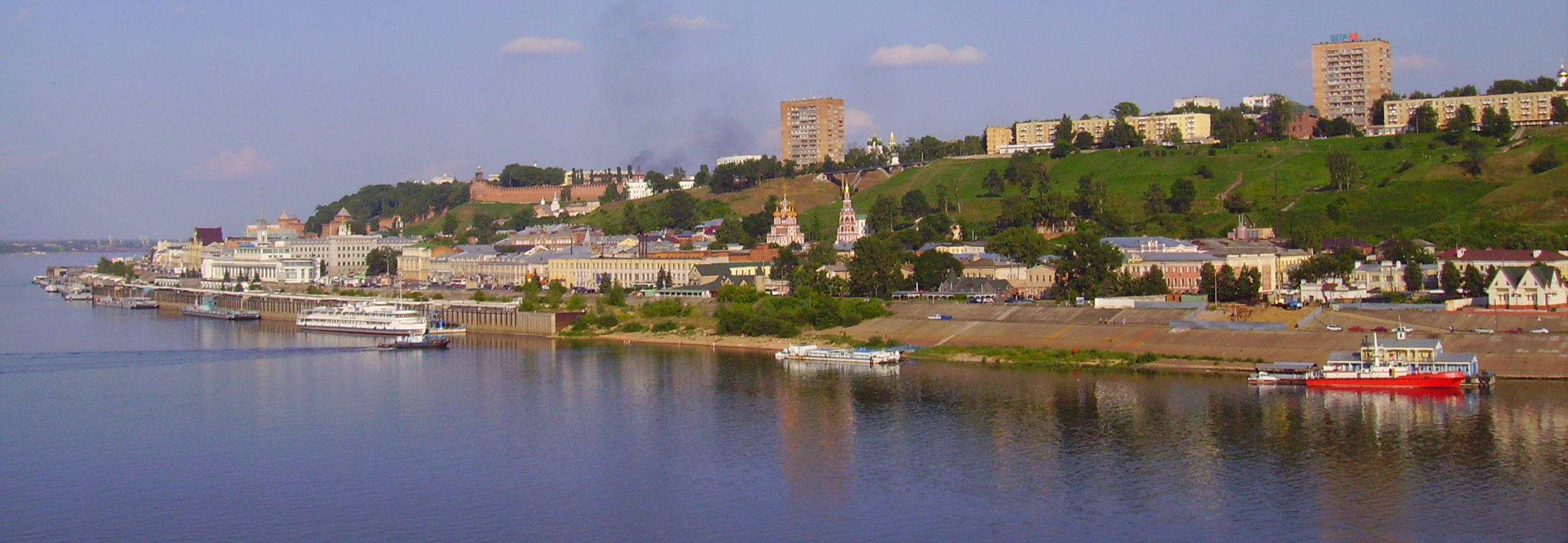 View from Kanavinsky bridge to the center of city